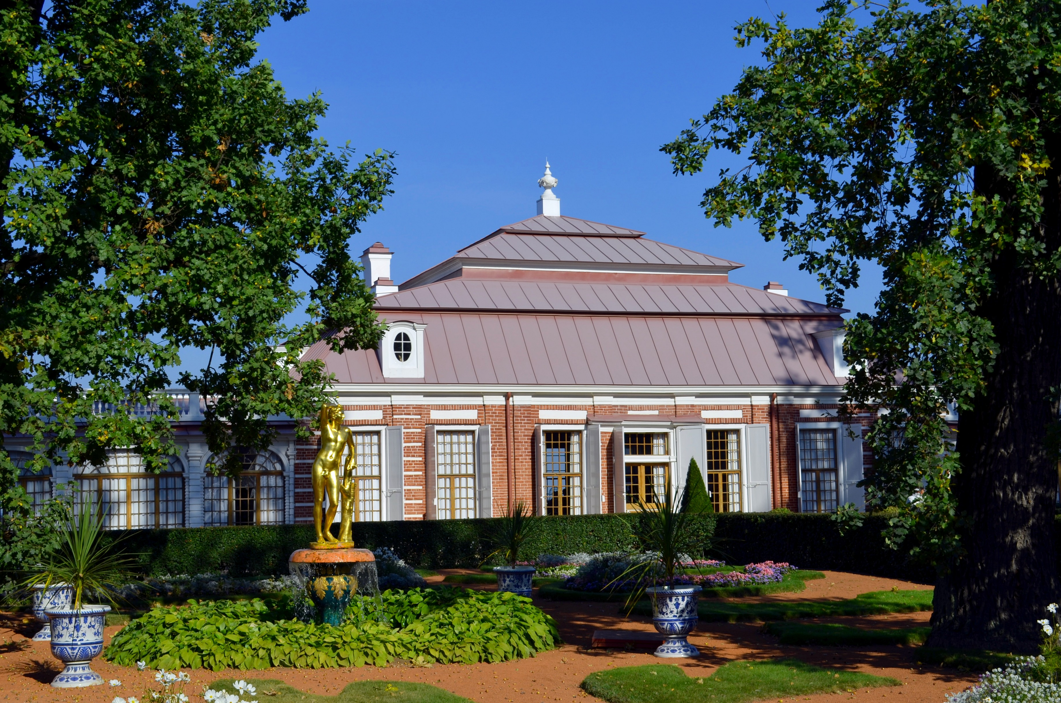 Monplaisir Palace: eastern part of the Lower Park, Peterhof, Petrodvortsovy district, St. Petersburg